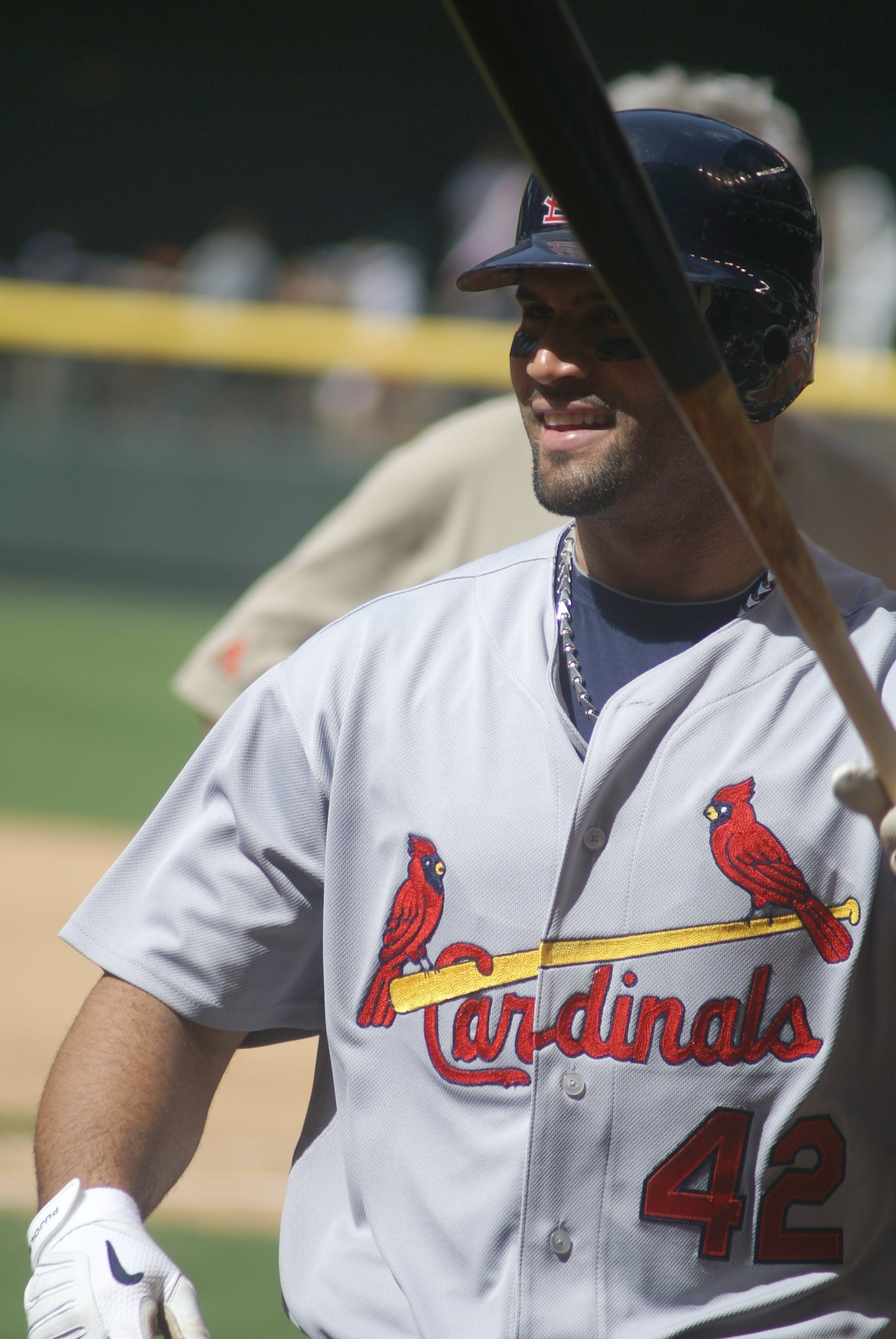 Albert Pujols in 2009.